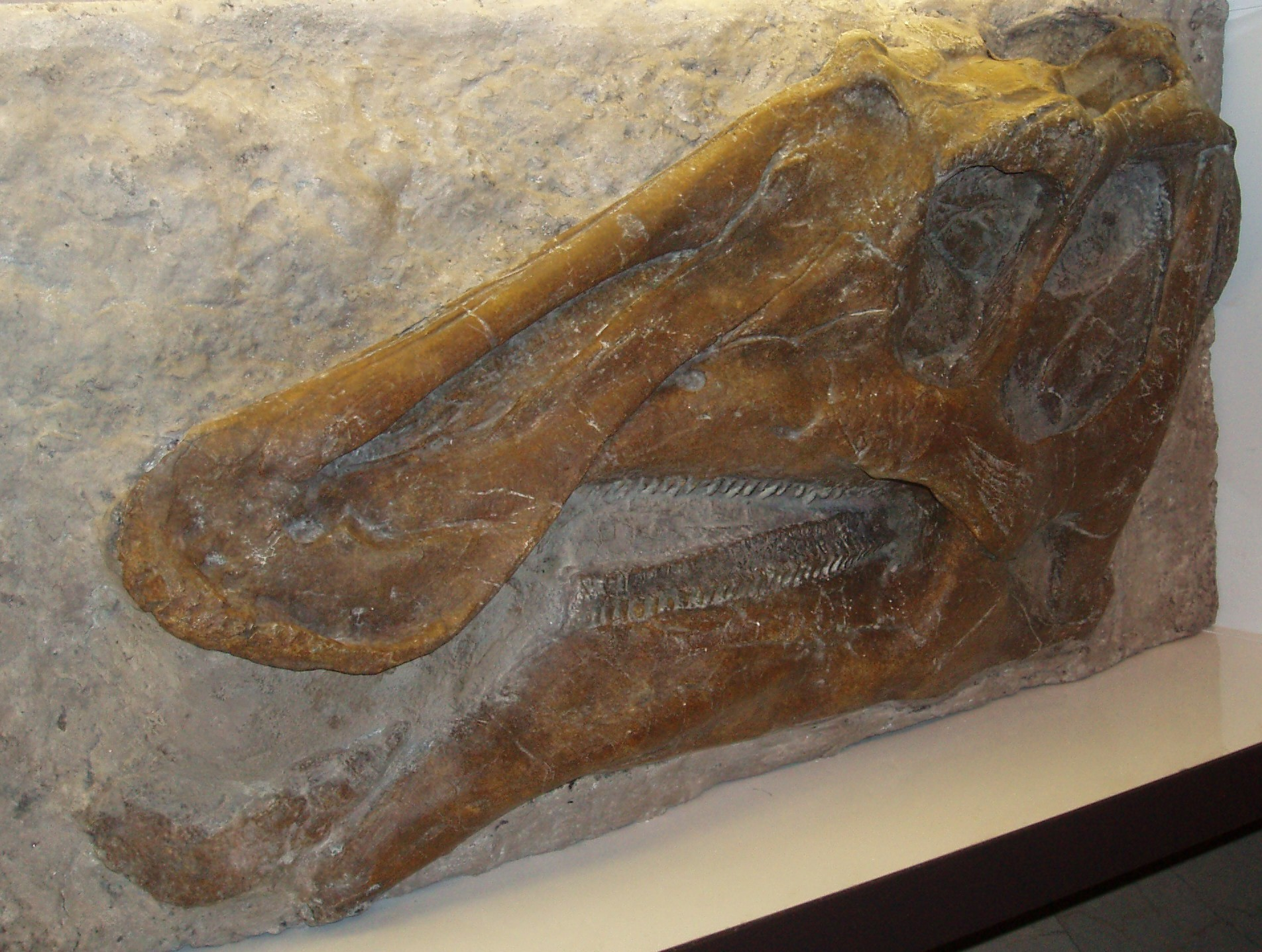 Skull of Prosaurolophus maximus, an ornithopod dinosaur